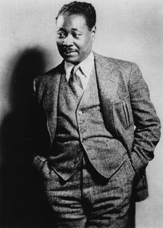 Photo of the poet, novelist and short story writer Claude McKay